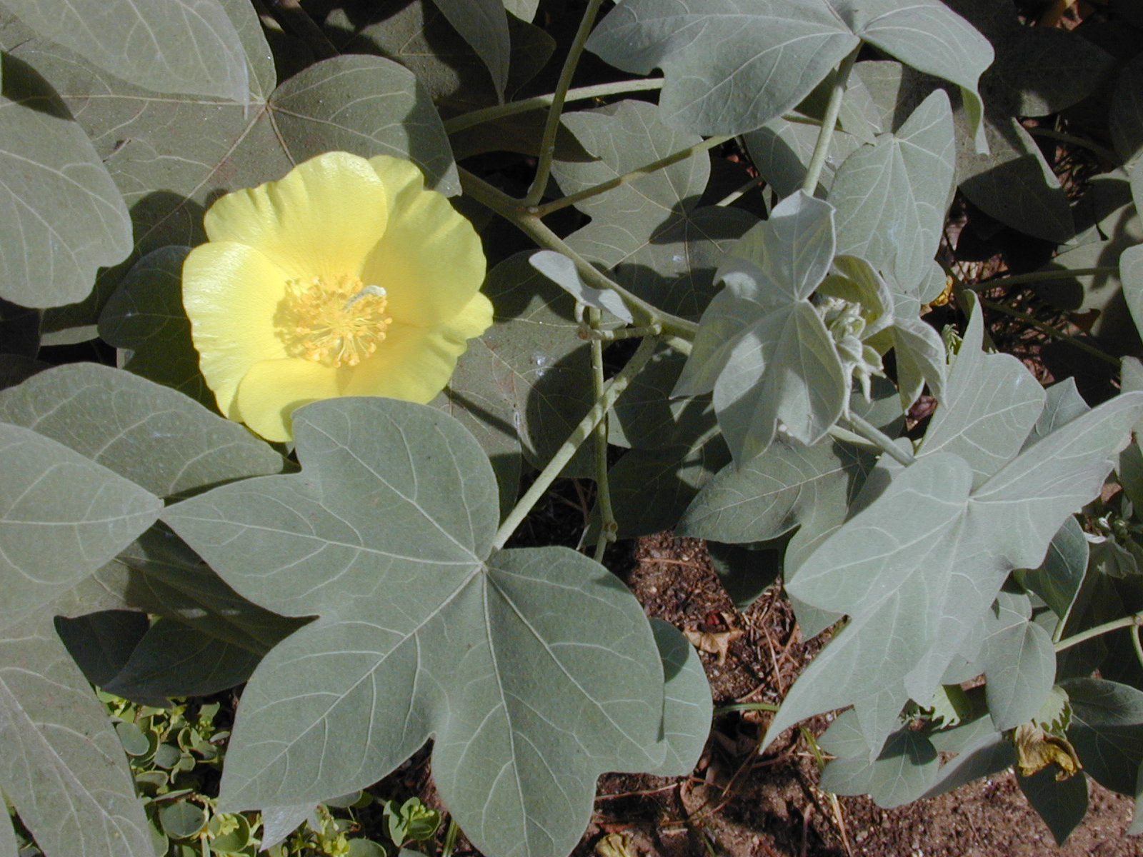 Gossypium tomentosum (flower and leaf). Location: Maui, Kalepolepo